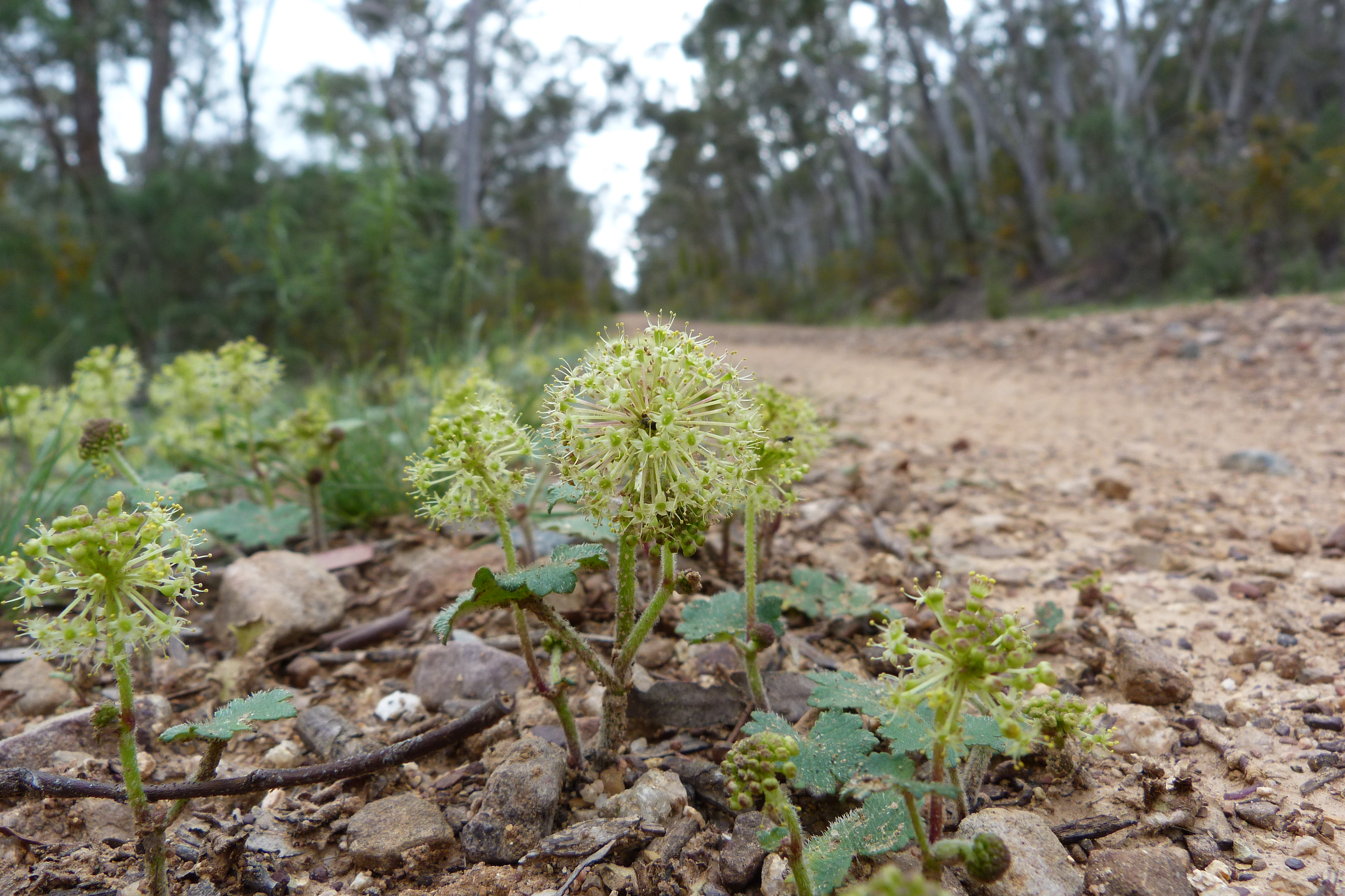 Hydrocotyle laxiflora DC., Black Mountain, Canberra, ACT, 29 October 2010 This plant is known as Stinking Pennywort. Elsewhere on the web the smell of this plant is compared to a piggery, but to my nose it smells like naphthalene (mothballs).